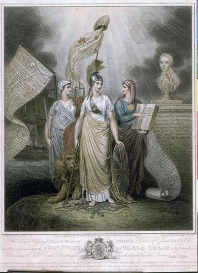 Plate to commemorate the abolition of the slave trade by the British Parliament in 1807.